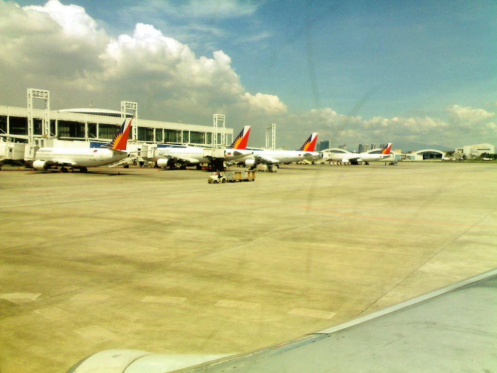 PAL operations.